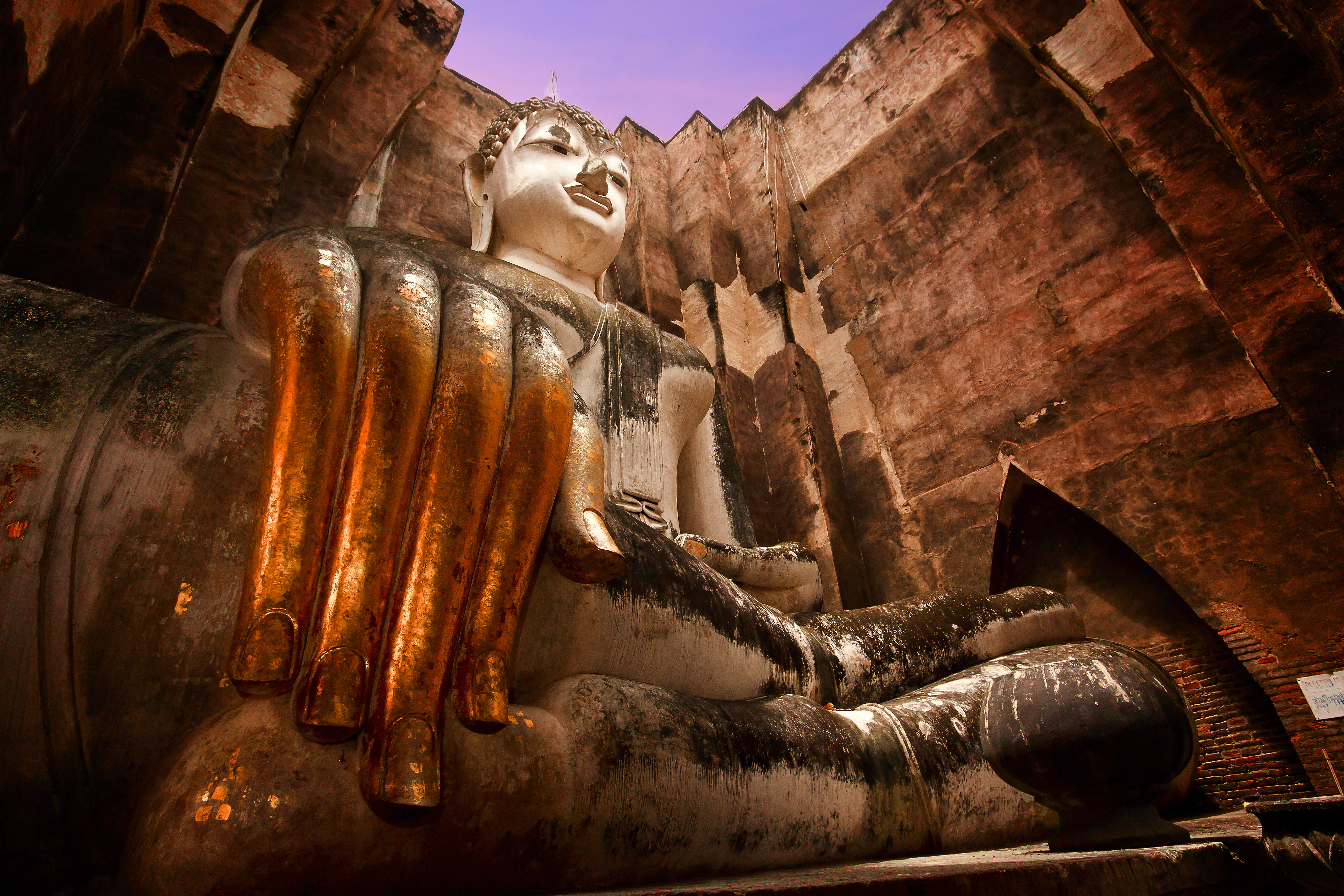 Statue at Wat Si Chum in Sukhothai historical park, Mueang Sukhothai District, Sukhothai Province, northern Thailand